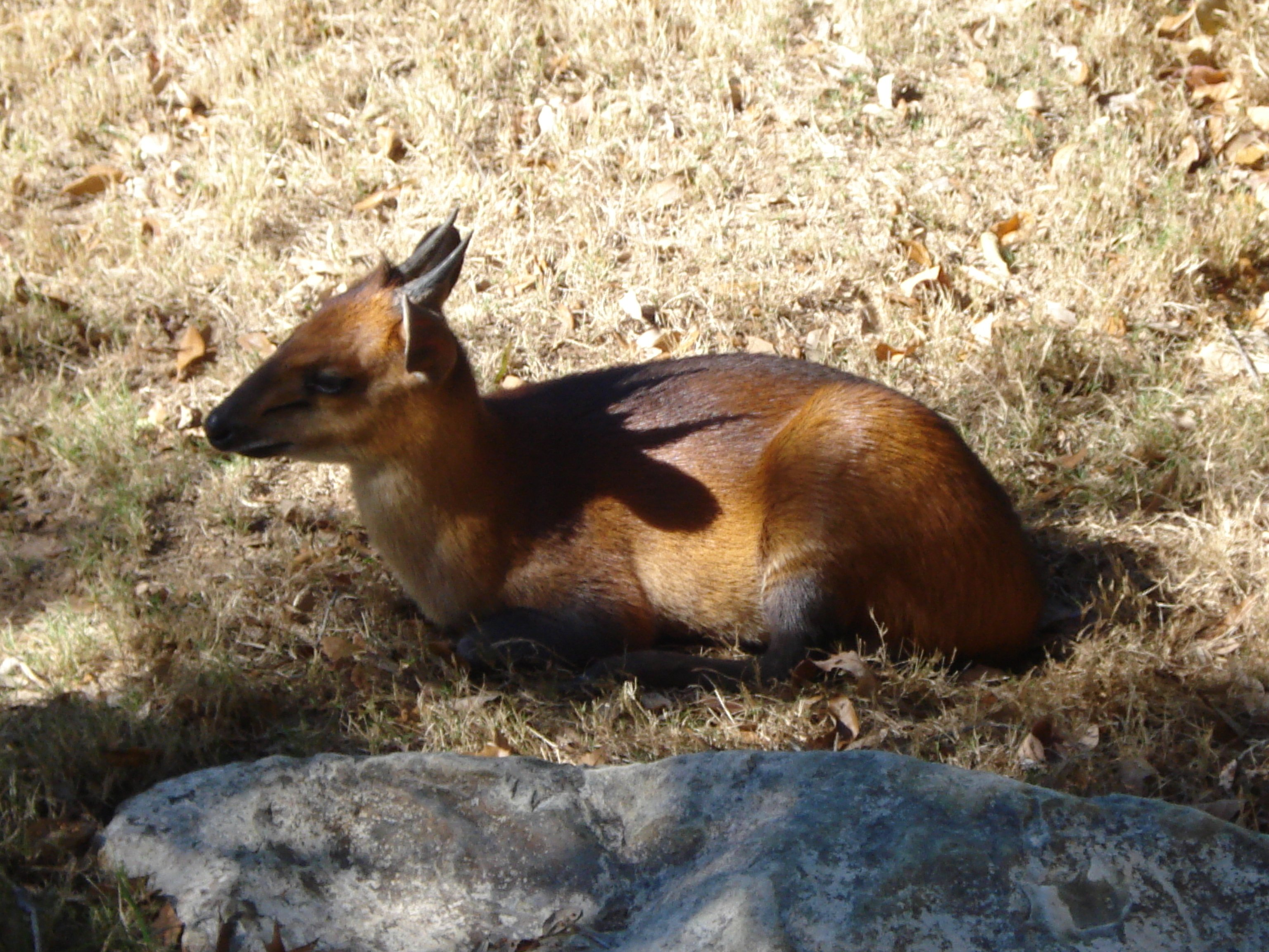 Red-flanked Duiker, taken at Dallas Zoo, November 2007.